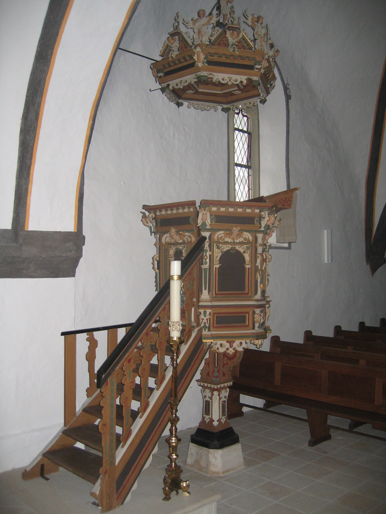 Pulpit of St. Ulricus church in Preußisch Oldendorf, District of Minden-Lübbecke, North Rhine-Westphalia, Germany.